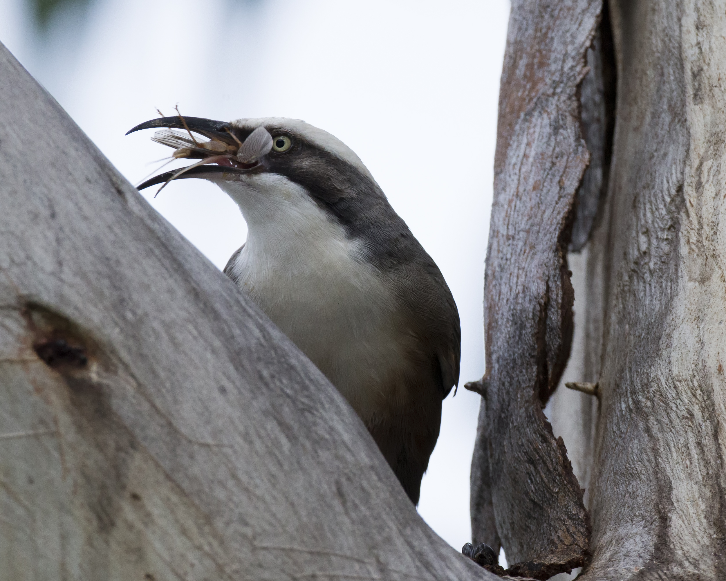 Grubs up. Babblers are always on the hunt